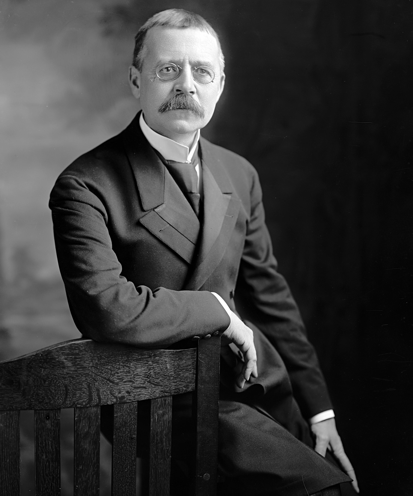 Frank Dunklee Currier, US Representative from New Hampshire